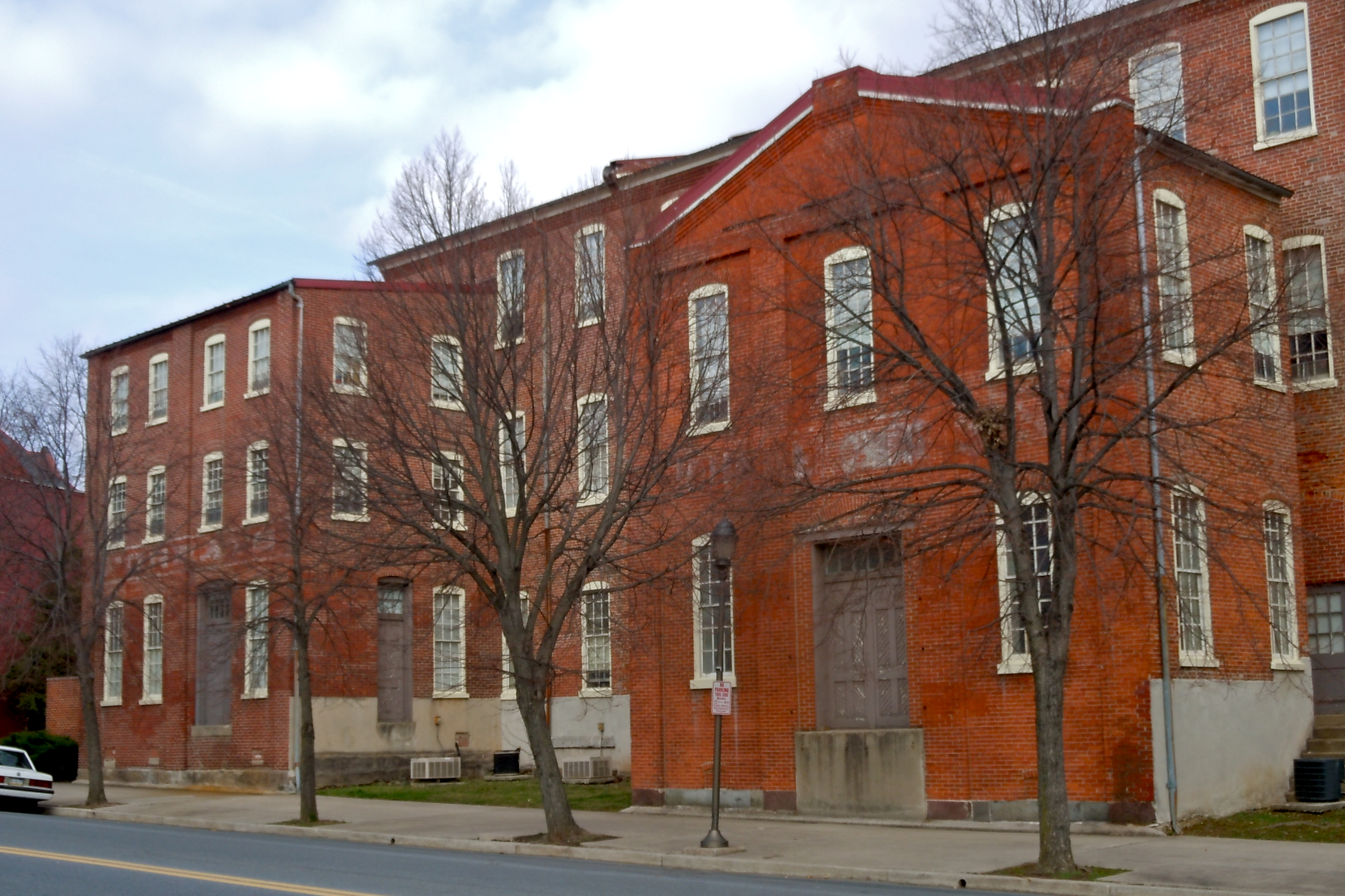 Hendel Brothers, Sons and Company Hat Factory on the NRHP since November 20, 1979. At 517–539 South 5th Street, Reading, Berks County, Pennsylvania